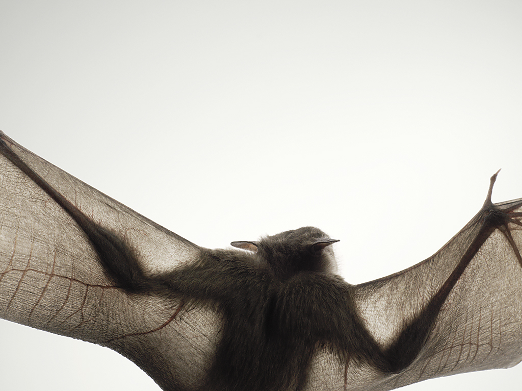 Tim Flach, bat